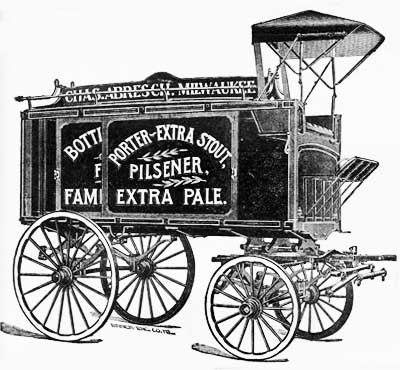 1892 Abresch Brewery wagon by the Charles Abresch Co., builders of horse-drawn vehicles in Milwaukee, Wisc.